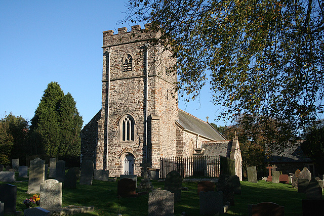 St Peter's parish church, Rose Ash, Devon, seen from the southwest. Before the Reformation its dedication was to All Saints. The fenced tomb by the tower is of members of the Tanner family of Nethercott, a farm to the southeast.